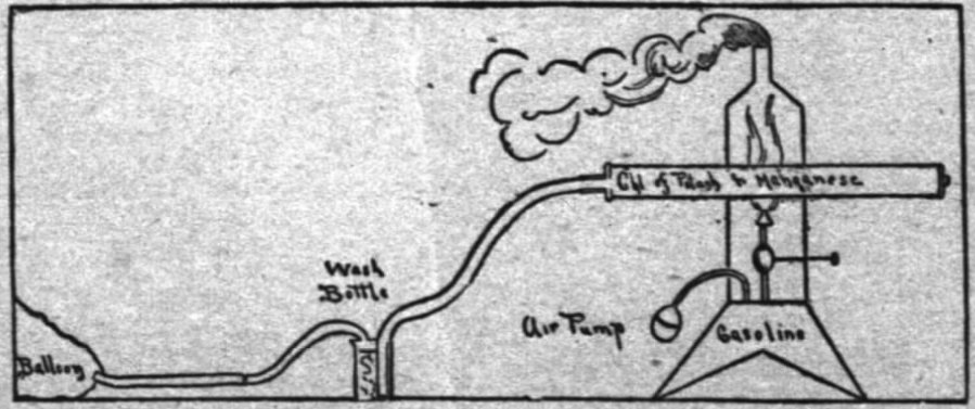 Myers apparatus to make oxygen gas for balloons